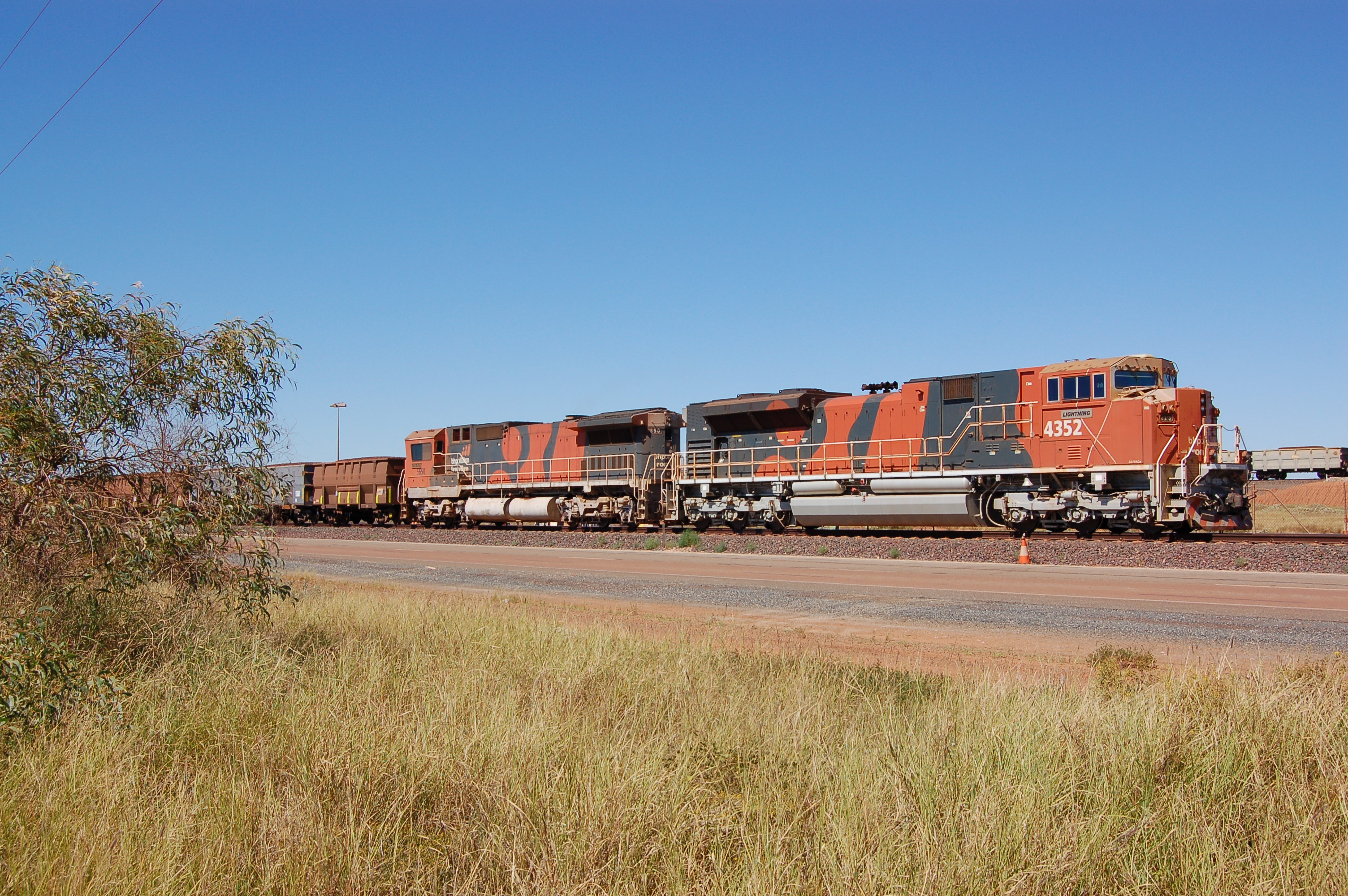 BHP Billiton Iron Ore GE CM40-8M no. 5650 Yawata (left) and EMD SD70ACe no. 4352 Lightning (right) at the head of a loaded train at Boodarie, near Port Hedland, awaiting clearance to continue the short distance to Finucane Island, the northwestern terminus of the Goldsworthy railway, Western Australia. A Fortescue Metals Group train on the Fortescue railway is just visible in the background at right.